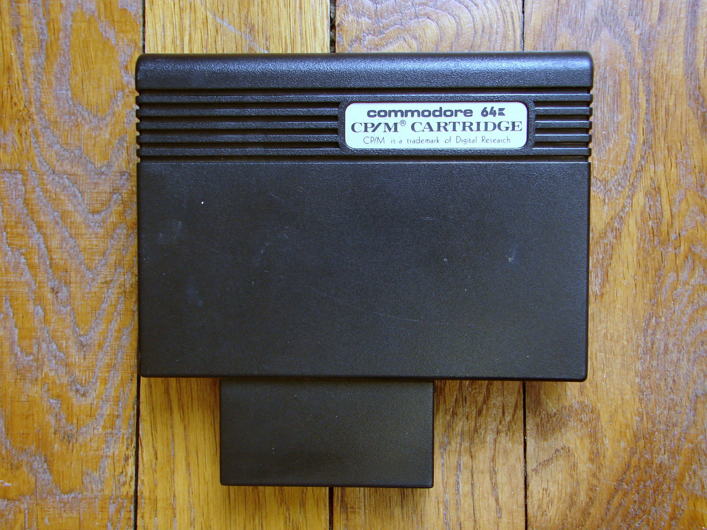 Commodore CP-M cartridge for the C64